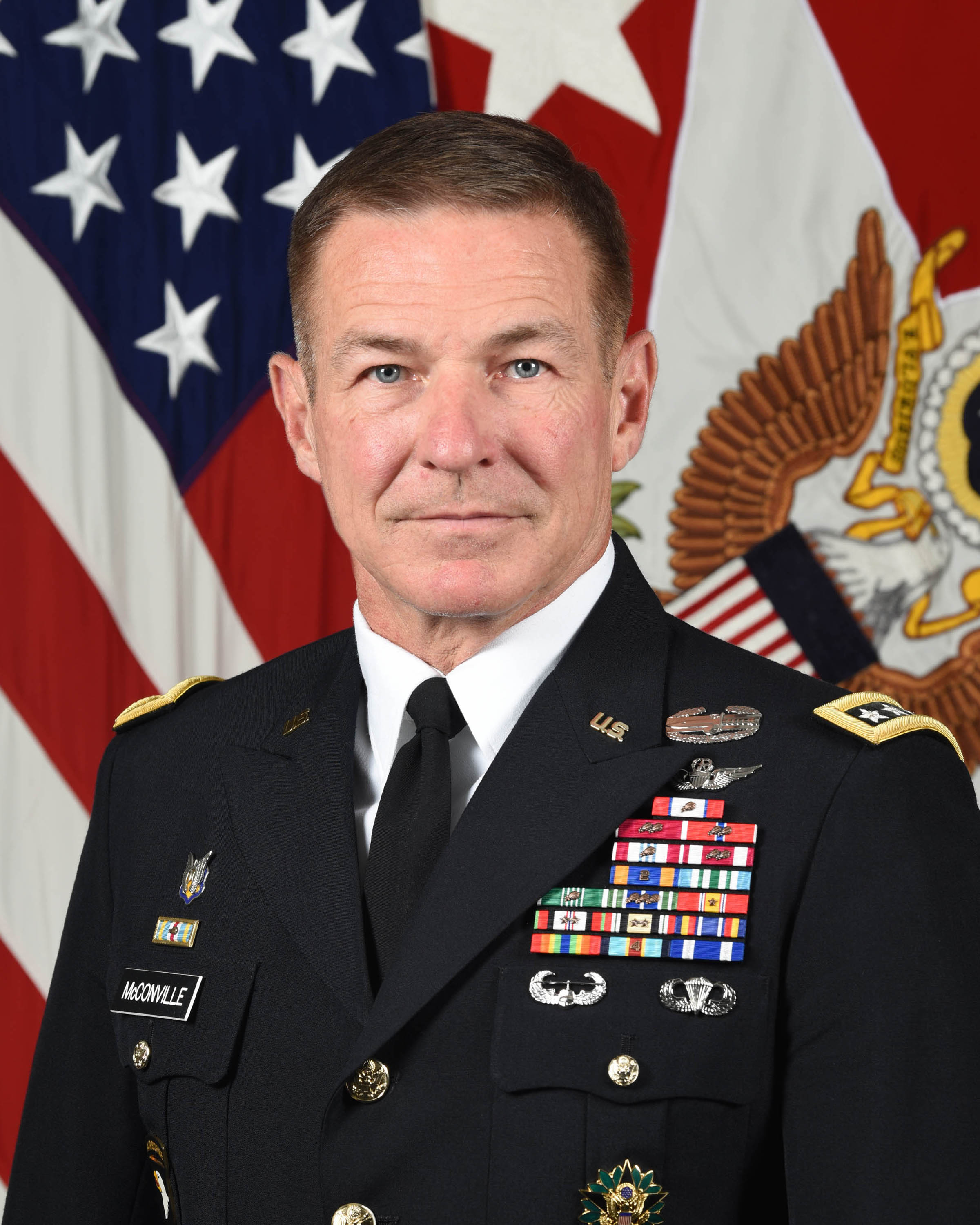 Portrait